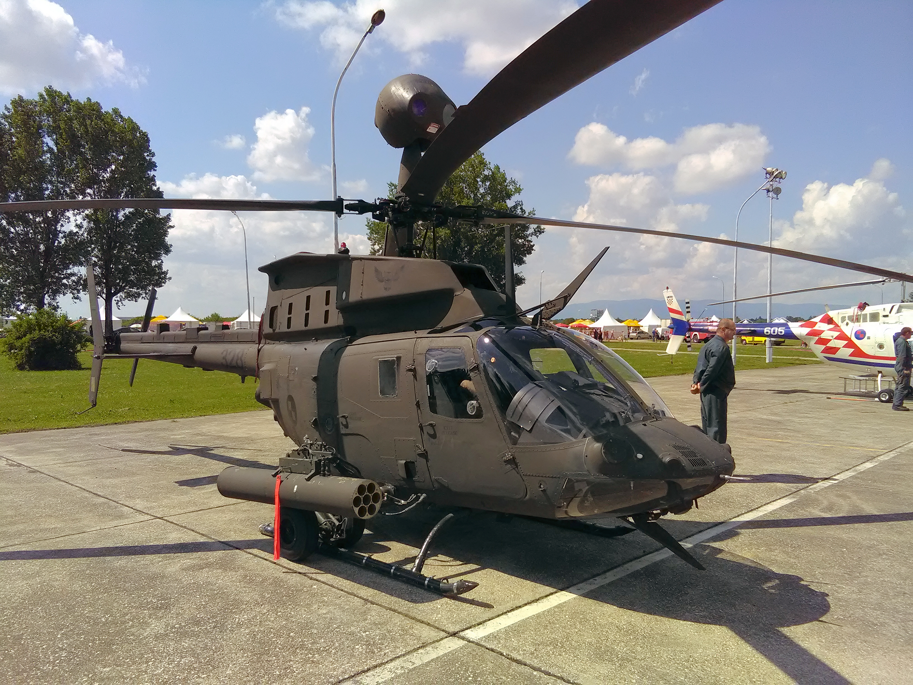 A Croatian Bell OH-58D Kiowa Warrior at AirVG 2018